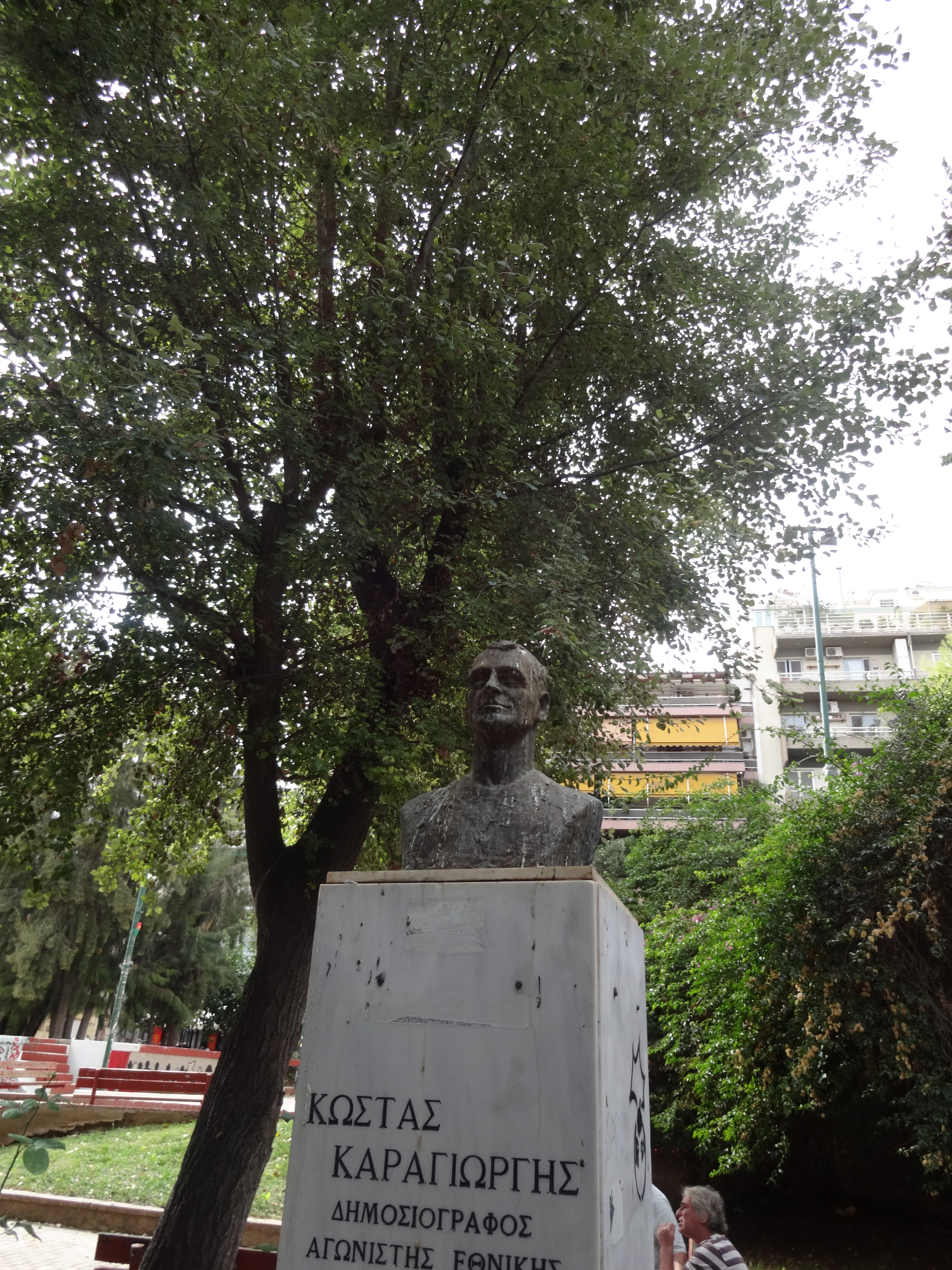 Bust of Greek journalist, communist and leader of Greek Resistance in Thessaly, Kostas Karageorgis (1905-1954) in Athens, Greece